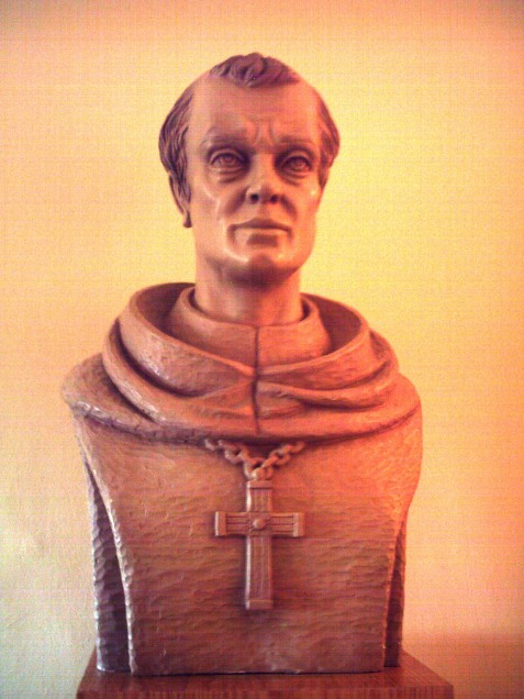 Statue of Jaume Caresmar Alemany